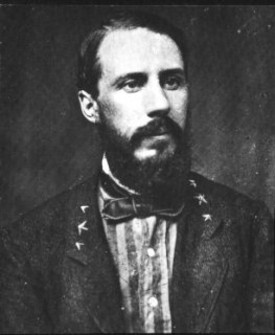 Brig. General Edward Porter Alexander, Chief 1st Corp Artillery ANV